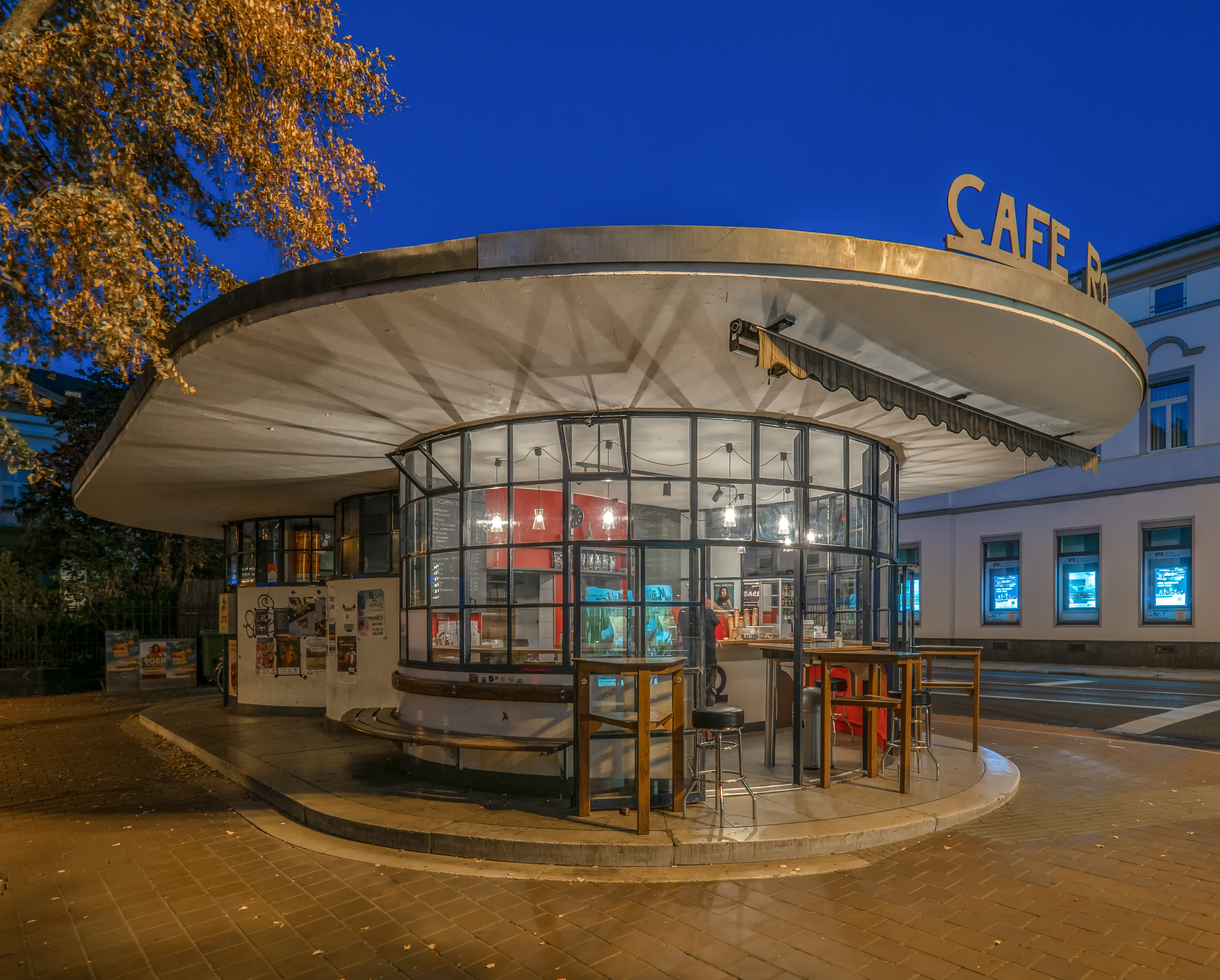 Former waiting hall of the former Reichspostdirektion. Today used as a café.